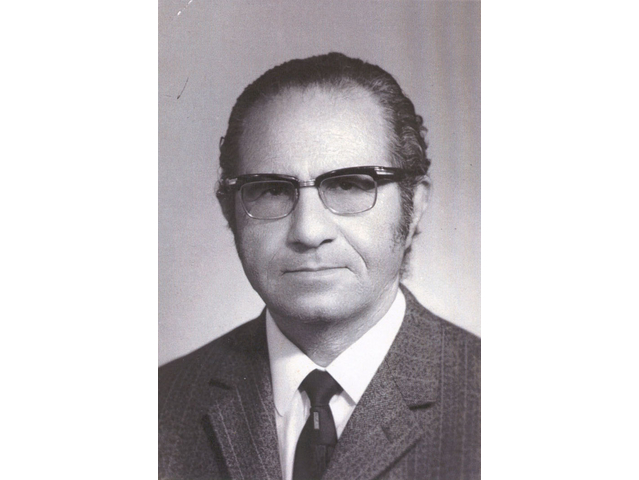 Dr. Mosstaghimi